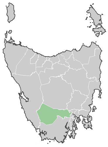 Map of Local Government Area Derwent Valley, Tasmania, Australia